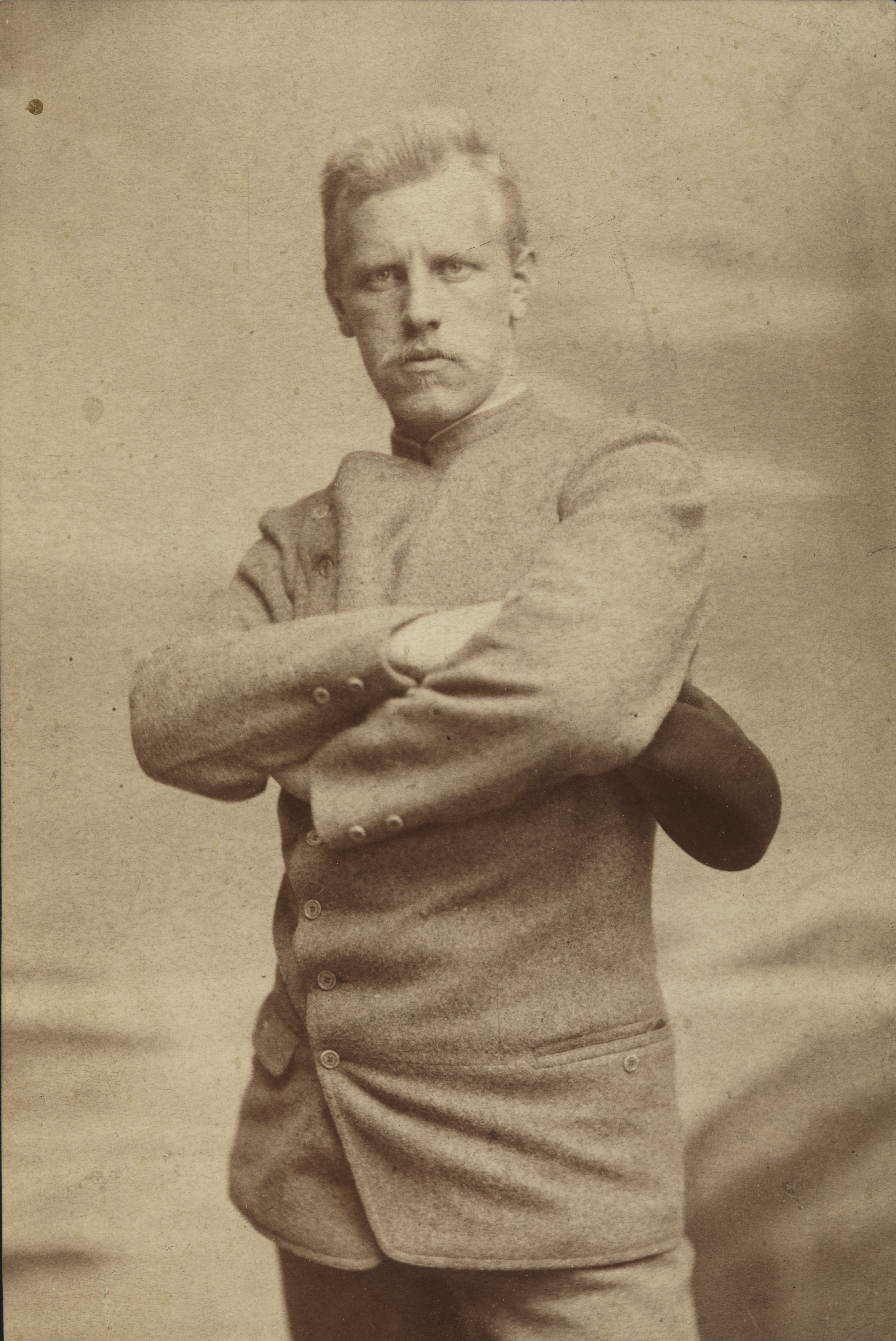 Fridtjof Nansen.